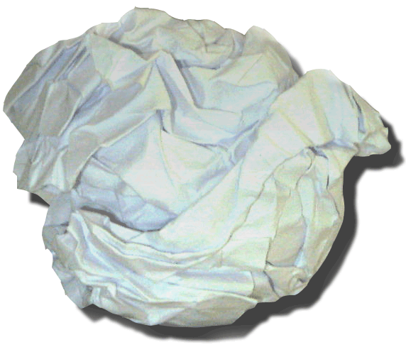 A crumpled paper ball made from an A4 sheet